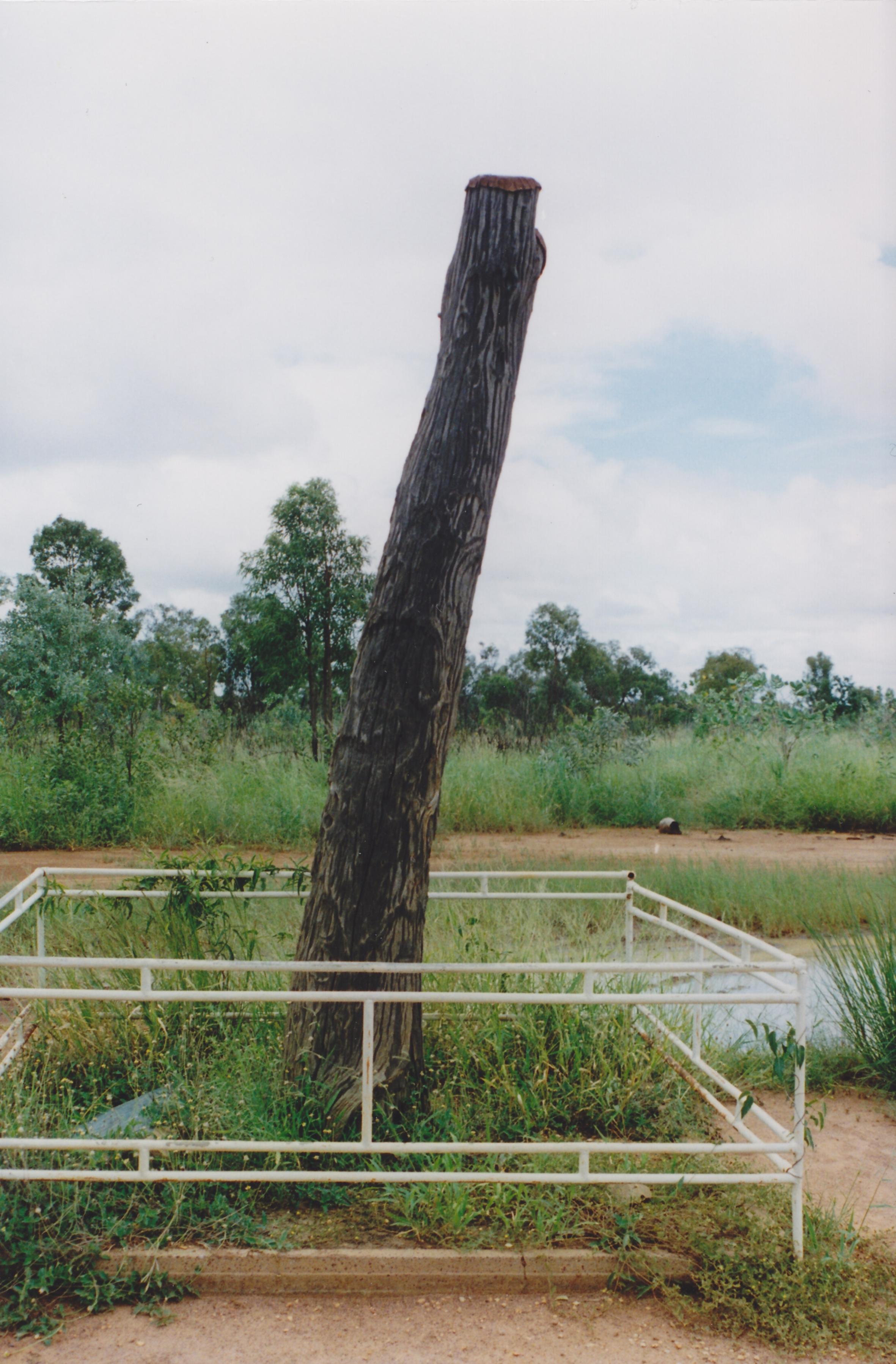 Tree commemorates the explorer John McDouall Stuart.